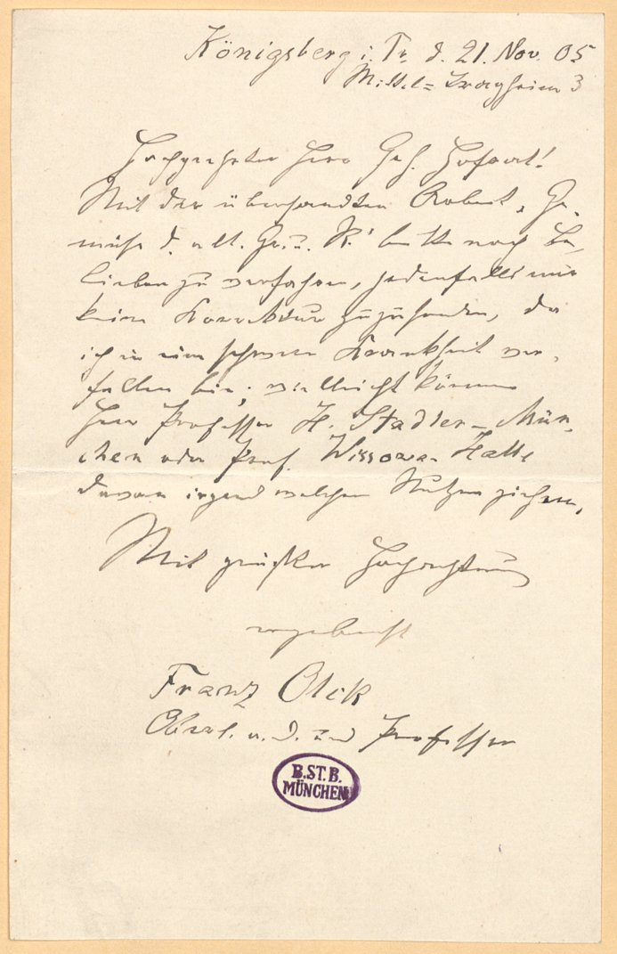 Handwritten letter of Franz Olck to Otto Crusius.